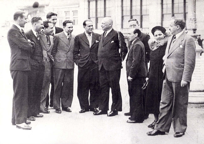 Chess player Israel Diner in Ostend, Belgium